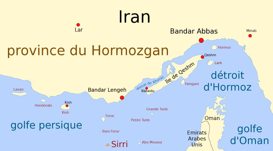 Map of Sirri island, in french